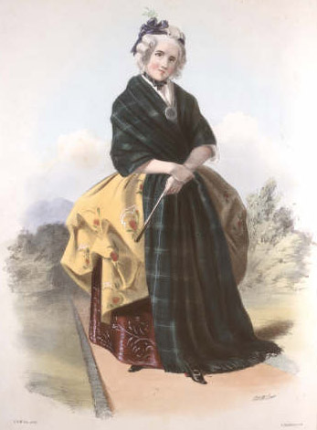 "Lamond". A plate illustrated by R. R. McIan, from James Logan's The Clans of the Scottish Highlands, published in 1845.